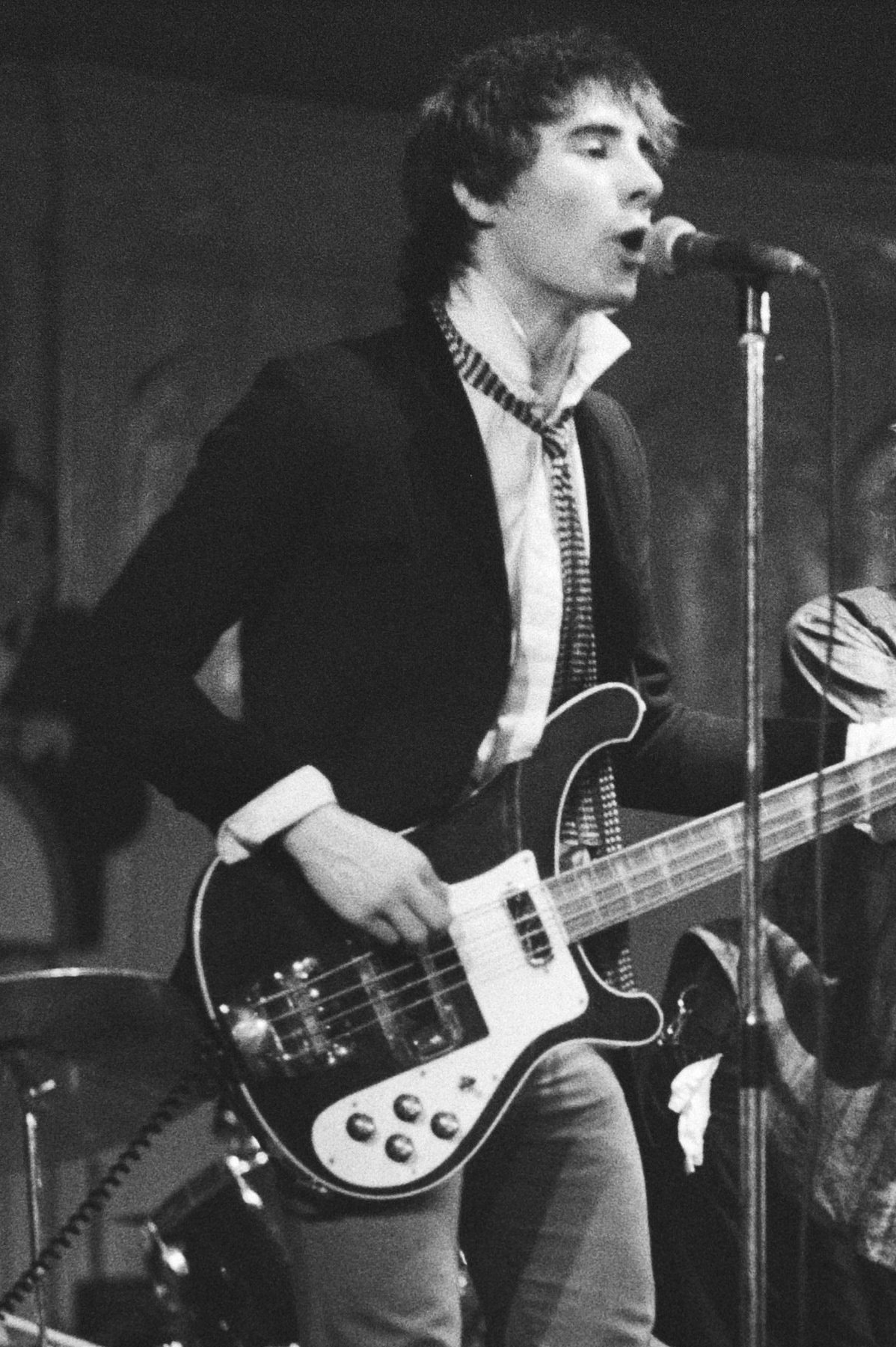 Sex Pistols perform in Paradiso, Amsterdam.